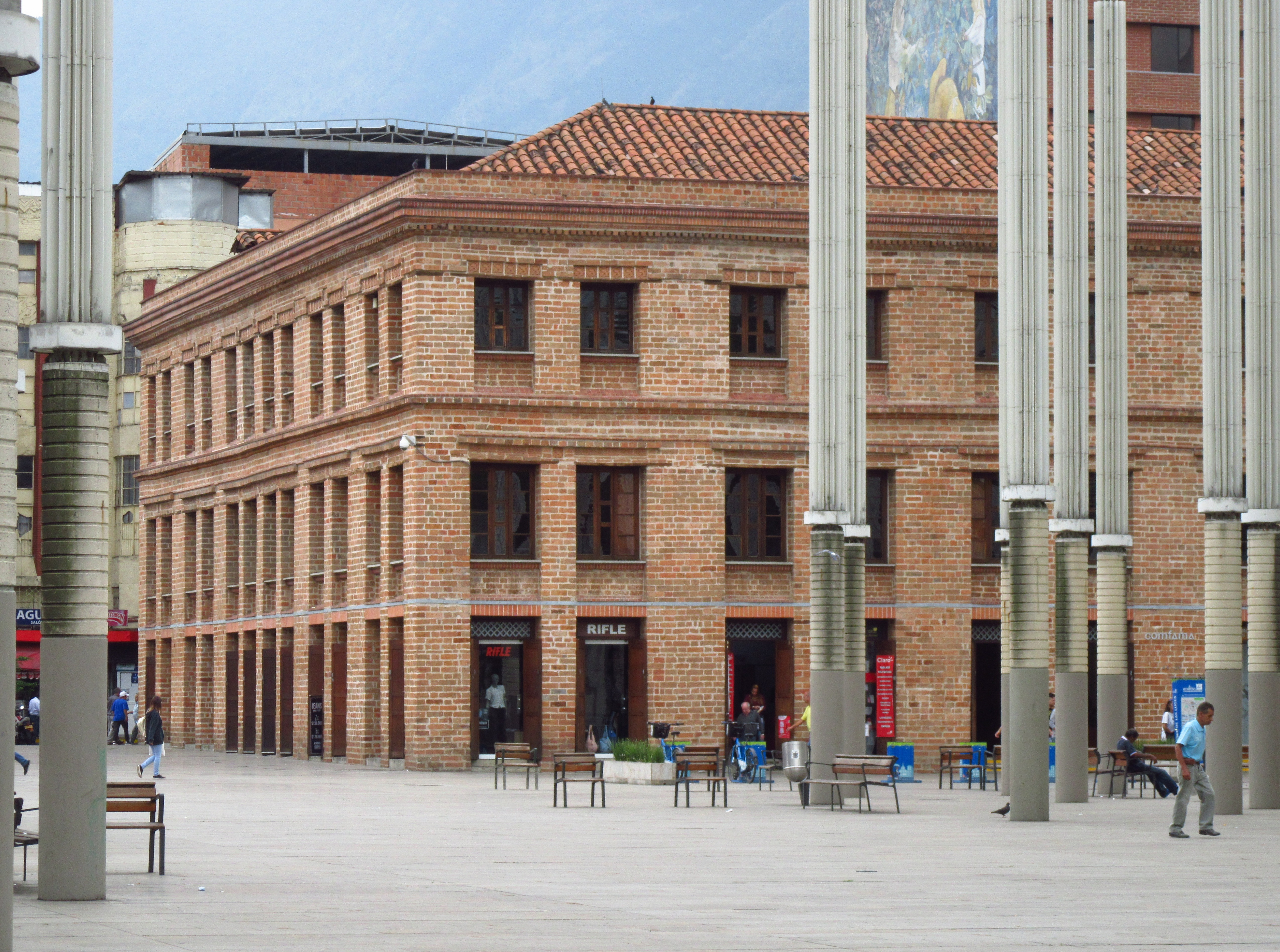 Medellín